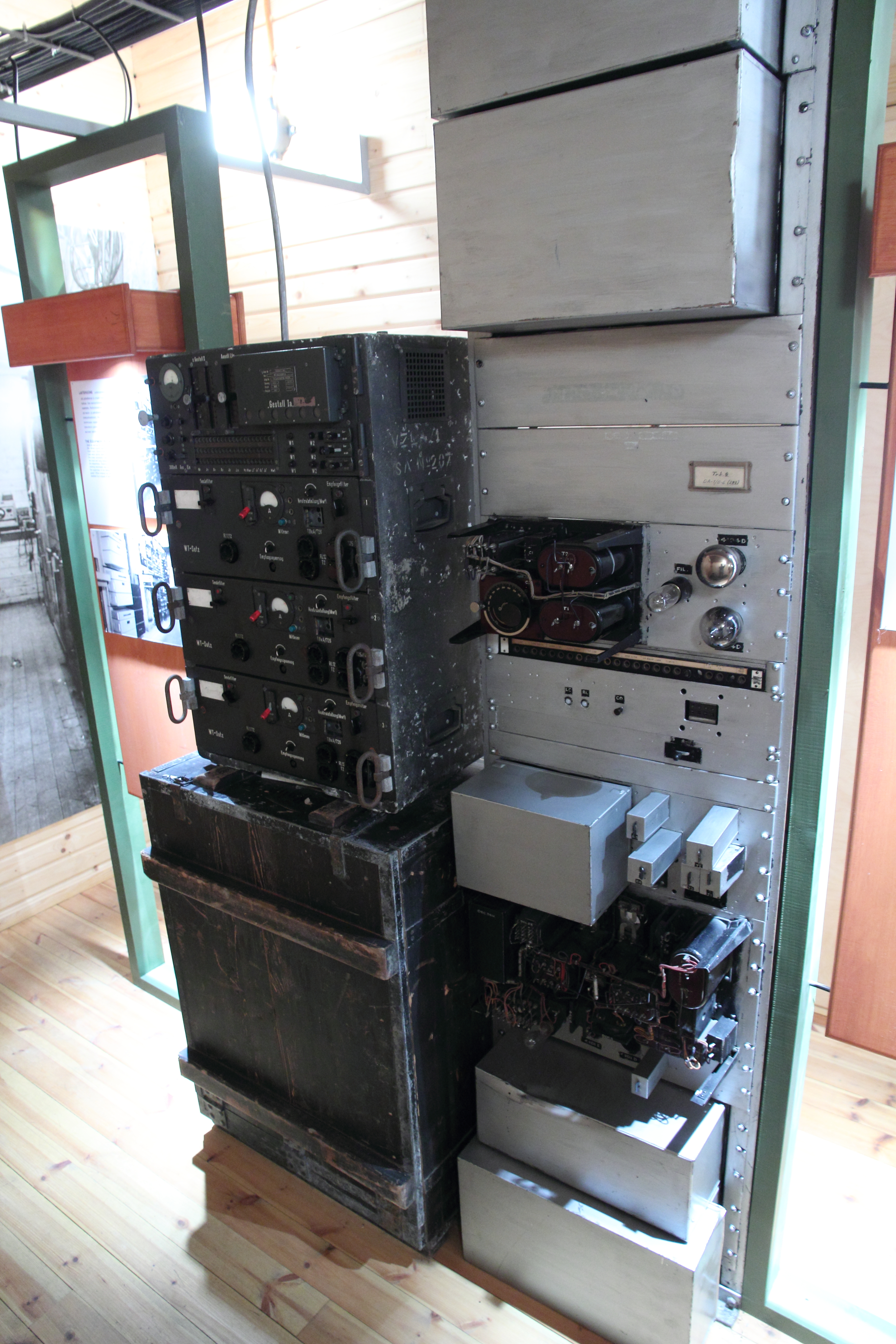 Telephone exchange equipment room (ie. equipment other than the manual switchboards) in communication centre Lokki in Finnish supreme HQ museum.